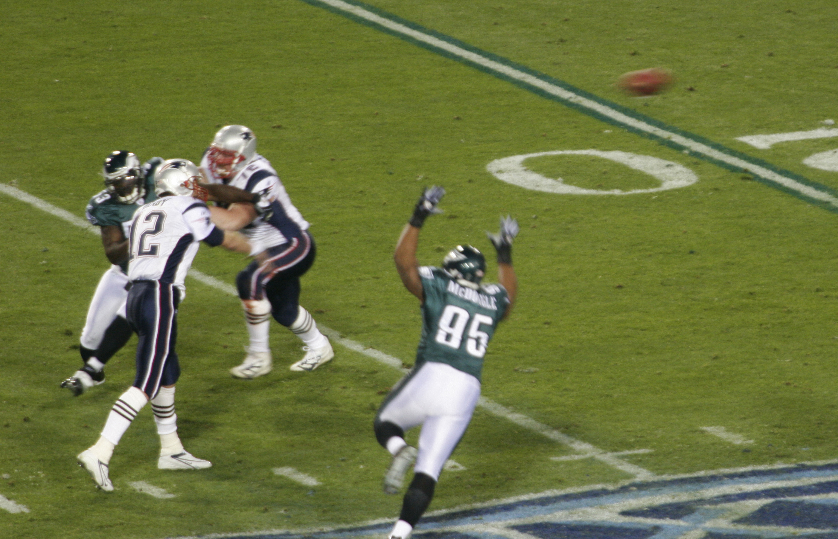 Tom Brady throws the ball during Super Bowl XXXIX. Brady connected with game Most Valuable Player Deion Branch 11 times to tie a Super Bowl record.